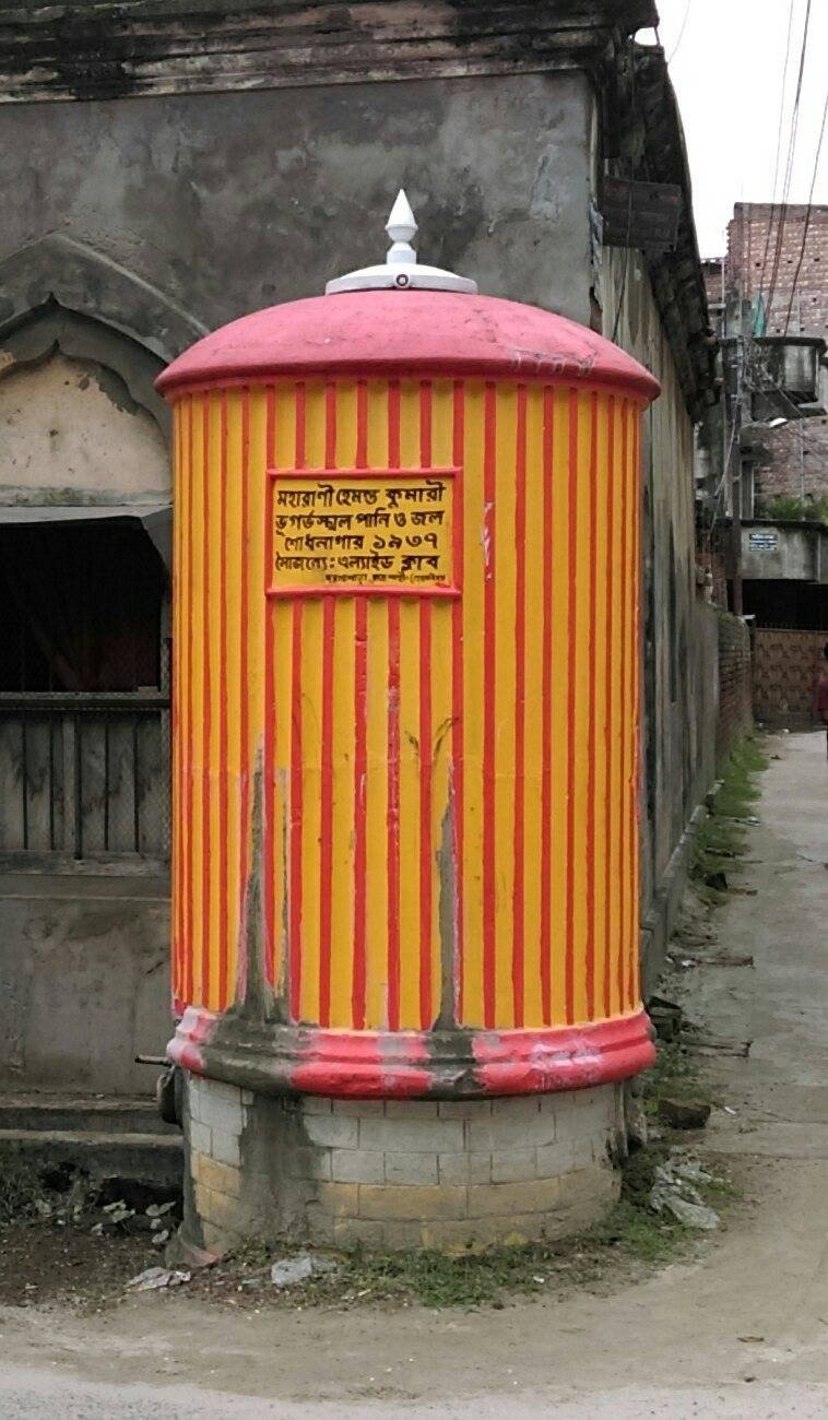 Dhopkols are with us for 120 years. It is an unique thing found only in Rajshahi. On 14 August, 1937 with the help of the donation of Maharani of Puthia Rani Hemanata Kumary Rajshahi Municipality established a water treatment plant for supplying pure water all over the city. The establishment was named Maharani Hemanata Kumary Water Works. Pipelines were installed and at most of the places concrete cylindrical water tanks were built so that water might be stored for common people for all hours. These water tanks came to known as Dhopkols.